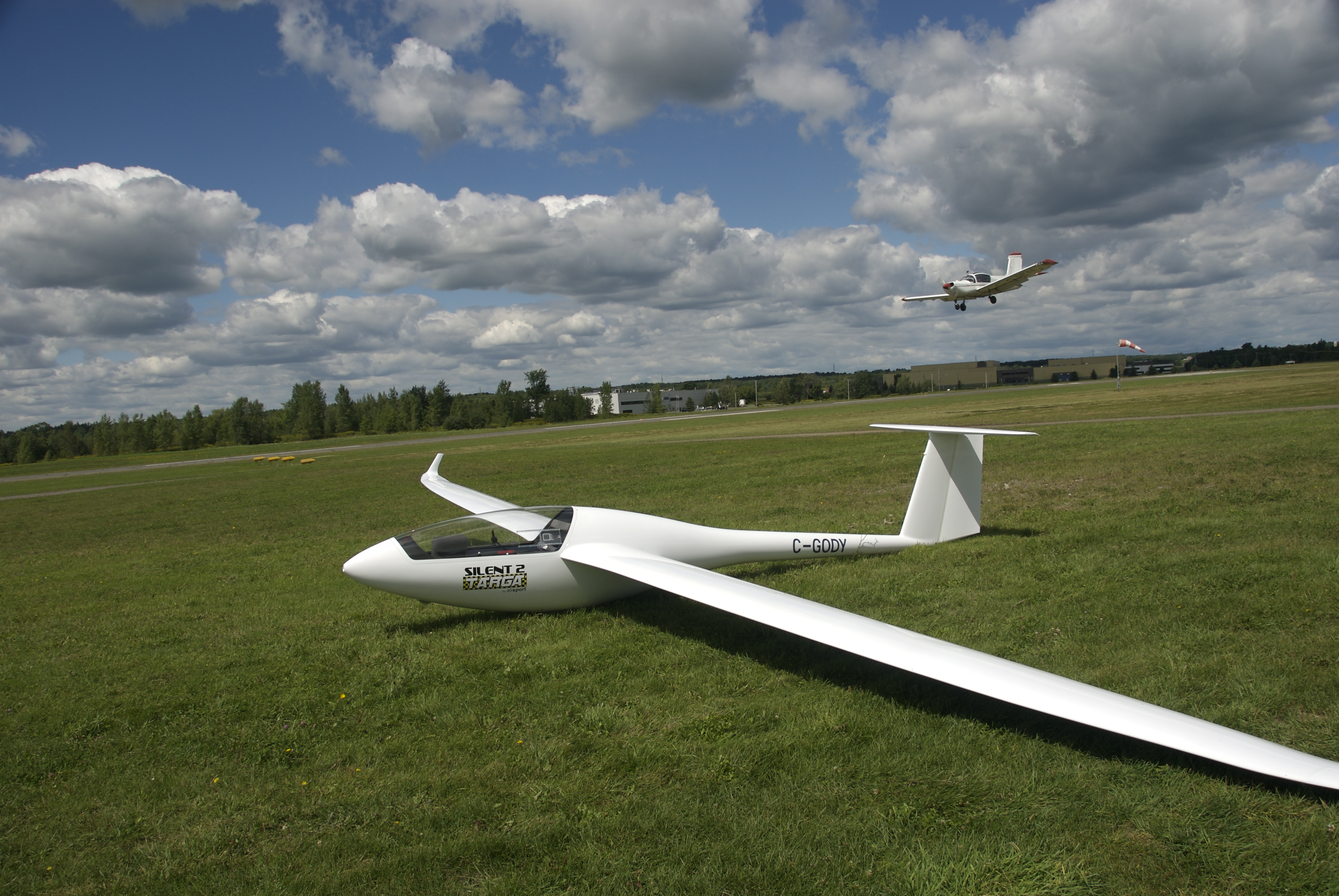 Silent 2 Targa single seat sailplane (C-GODY)